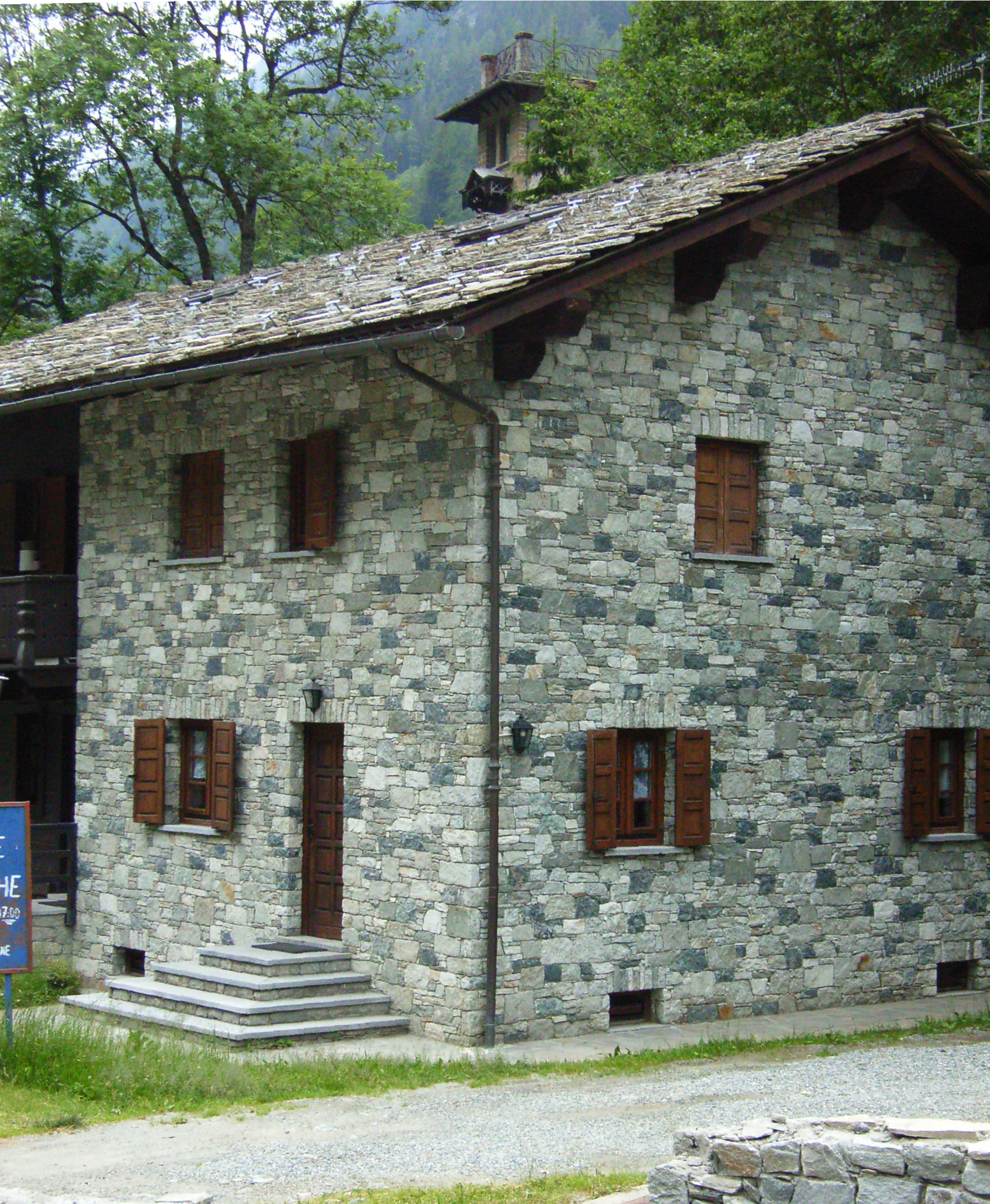 Gressoney Valley / Val di Gressoney, near Gressoney Saint Jean (Aoste Region, Italy) modern architecture with serpentinite